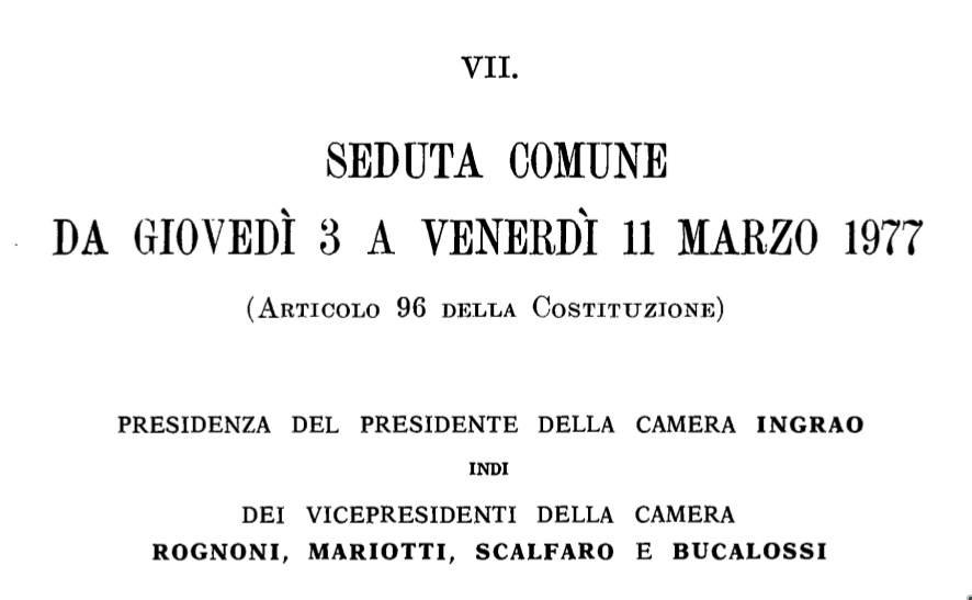 Photo of the cover (title) of a public document of Italian Parliament